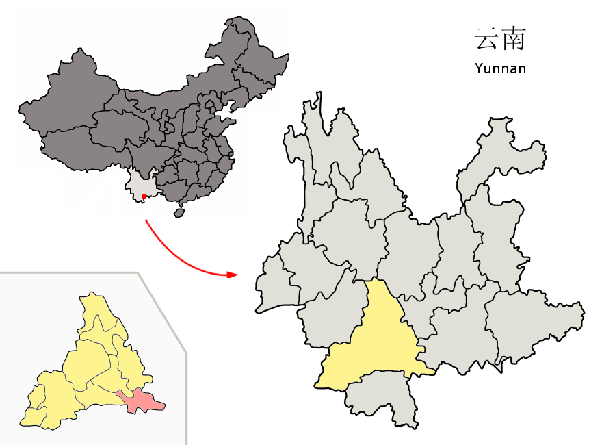 Location of Jiangcheng County (pink) and Pu'er Prefecture (yellow) within Yunnan province of China Map drawn in september 2007 using various sources, mainly : Yunnan province administrative regions GIS data: 1:1M, County level, 1990 Yunnan Counties map from